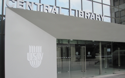 Entrance to the main library of the University of Suwon, taken in 2015